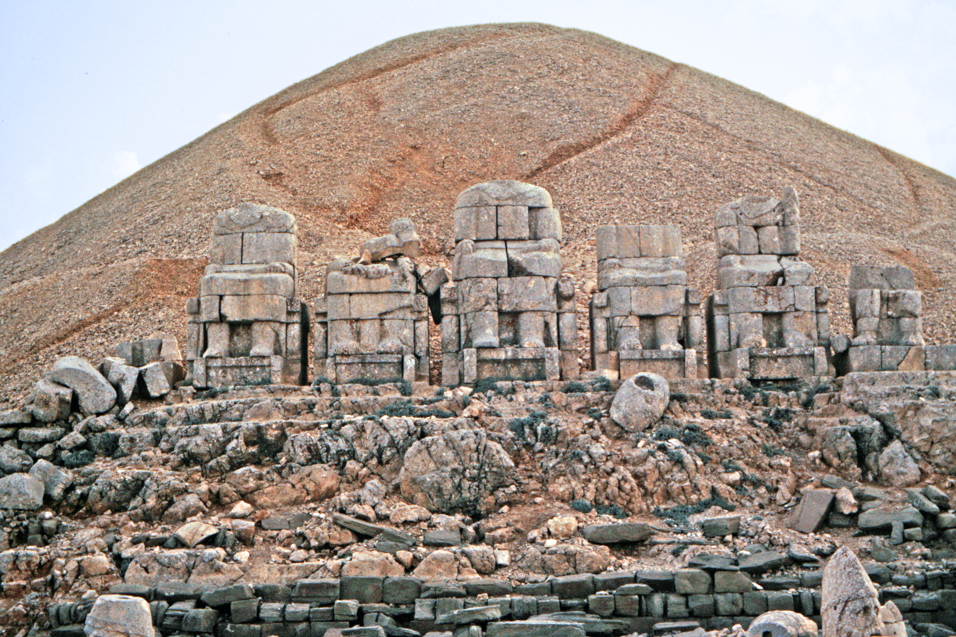 Nemrut Dagi, a mountain (2,150 meters above sea level) in the province of Adiyaman, Turkey (Taurus Mountains). On the top of the hill there is a sanctuary (relief steles) connected to a burial place (boulders with a diameter of 150 and a height of 150 meters).